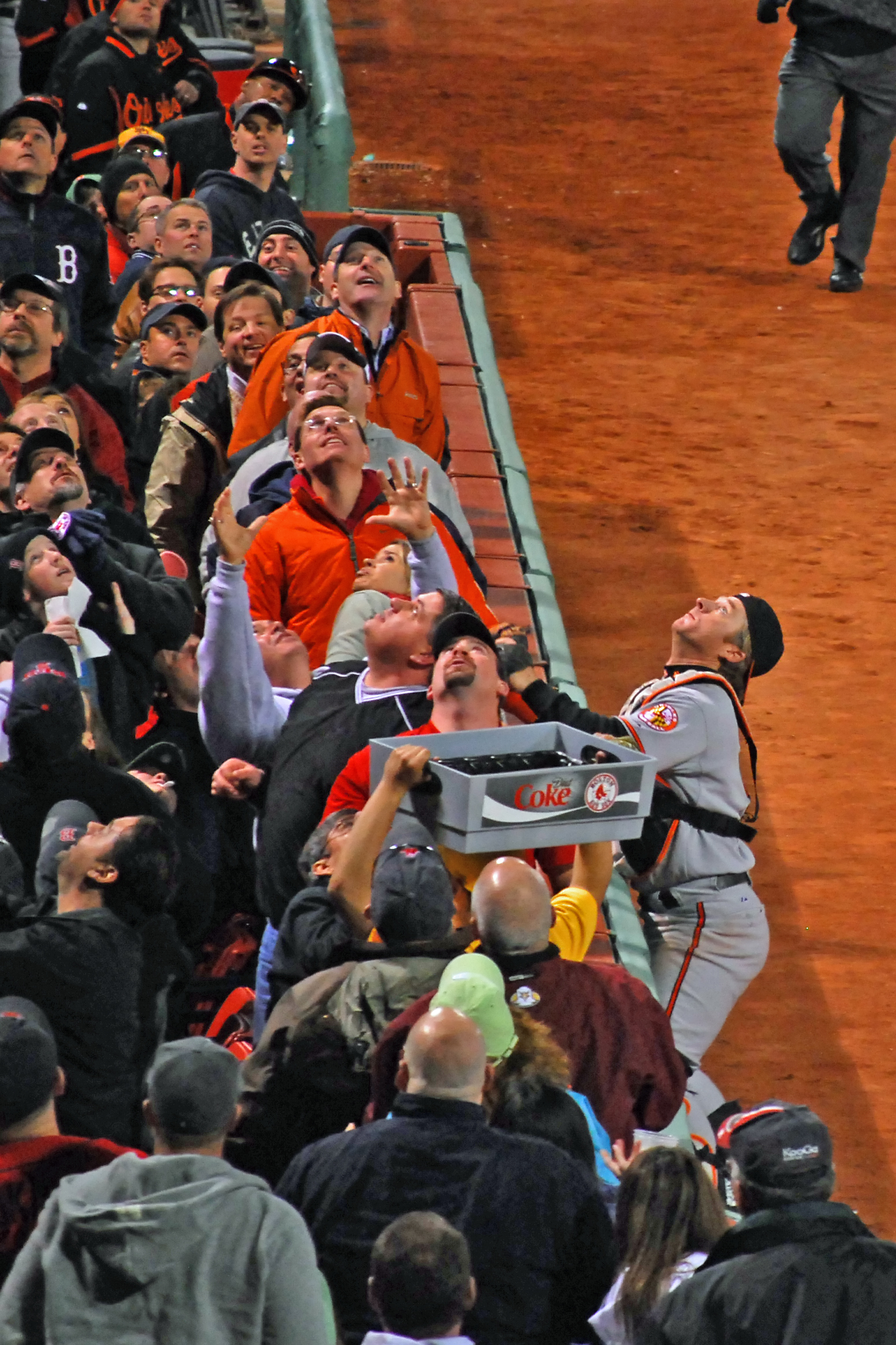 Gregg Zaun